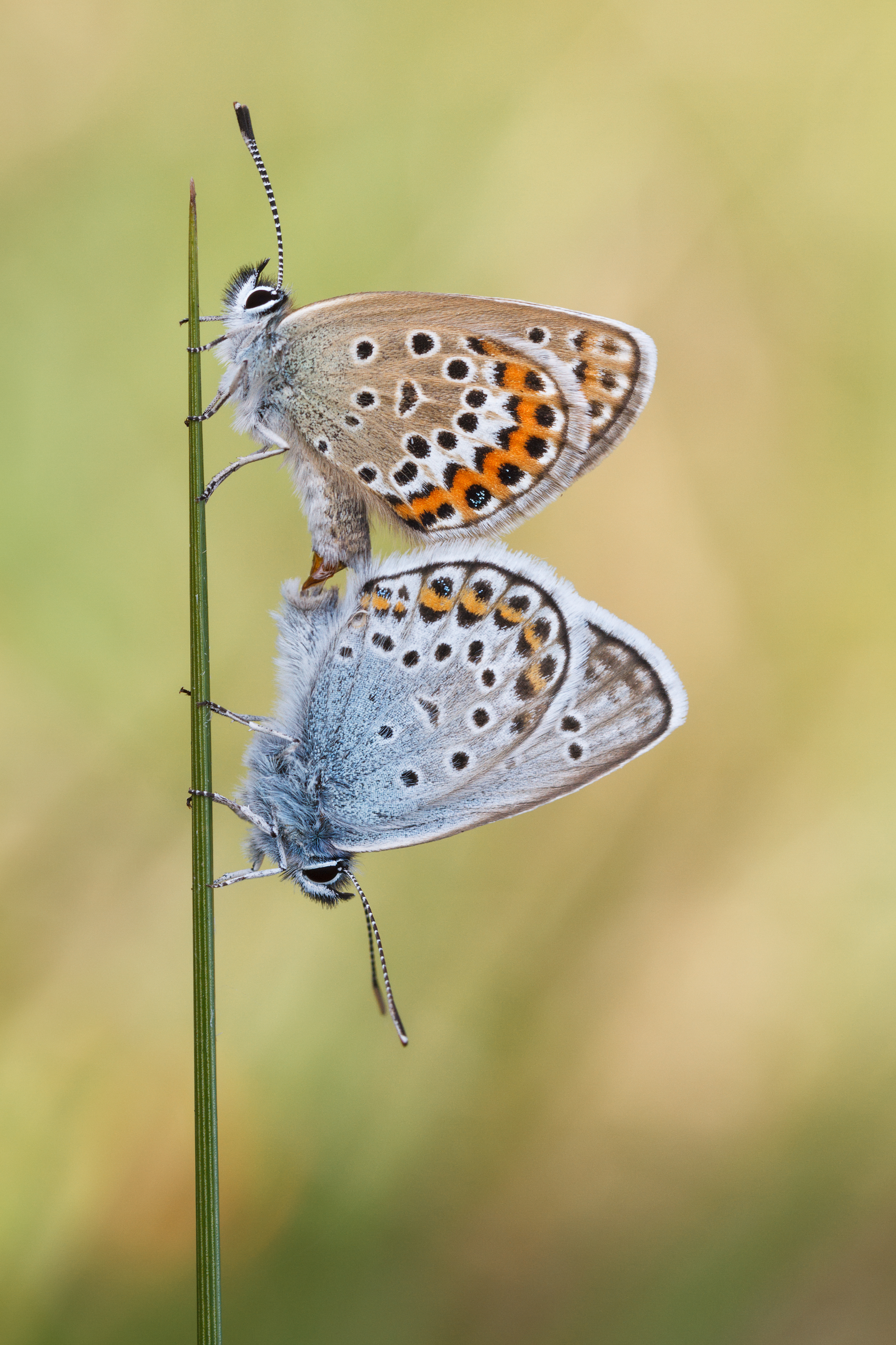 silver-studded blue (Plebejus argus)